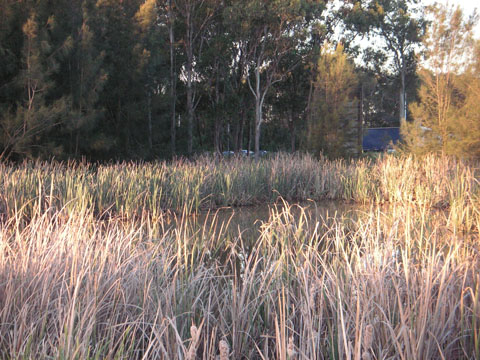 Lake Francis near intersection of Cowpasture Road and Greenway Drive in West Hoxton, NSW